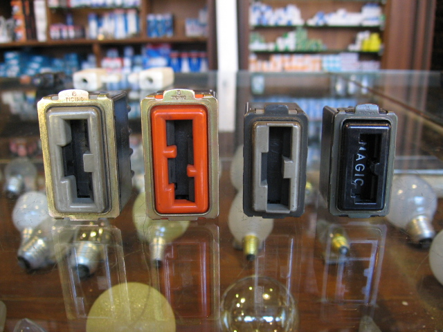 Bticino Magic security sockets